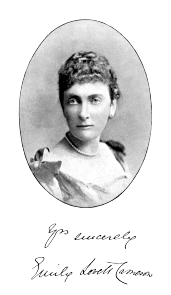 Emily Lovett Cameron from "Notable Women Authors of the Day" published in 1893